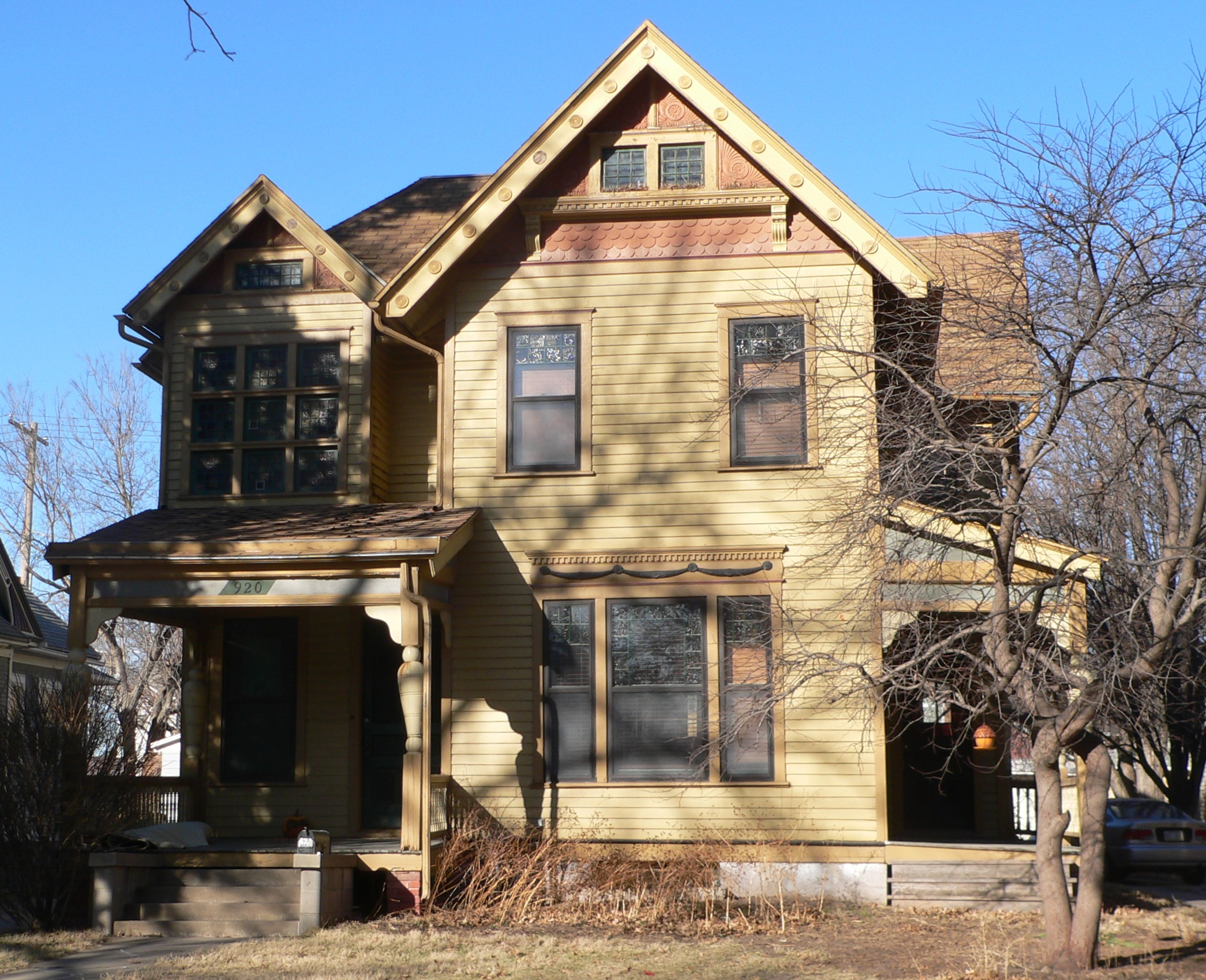 Albert Watkins house, located at 920 D Street in Lincoln, Nebraska; seen from the south, across D.